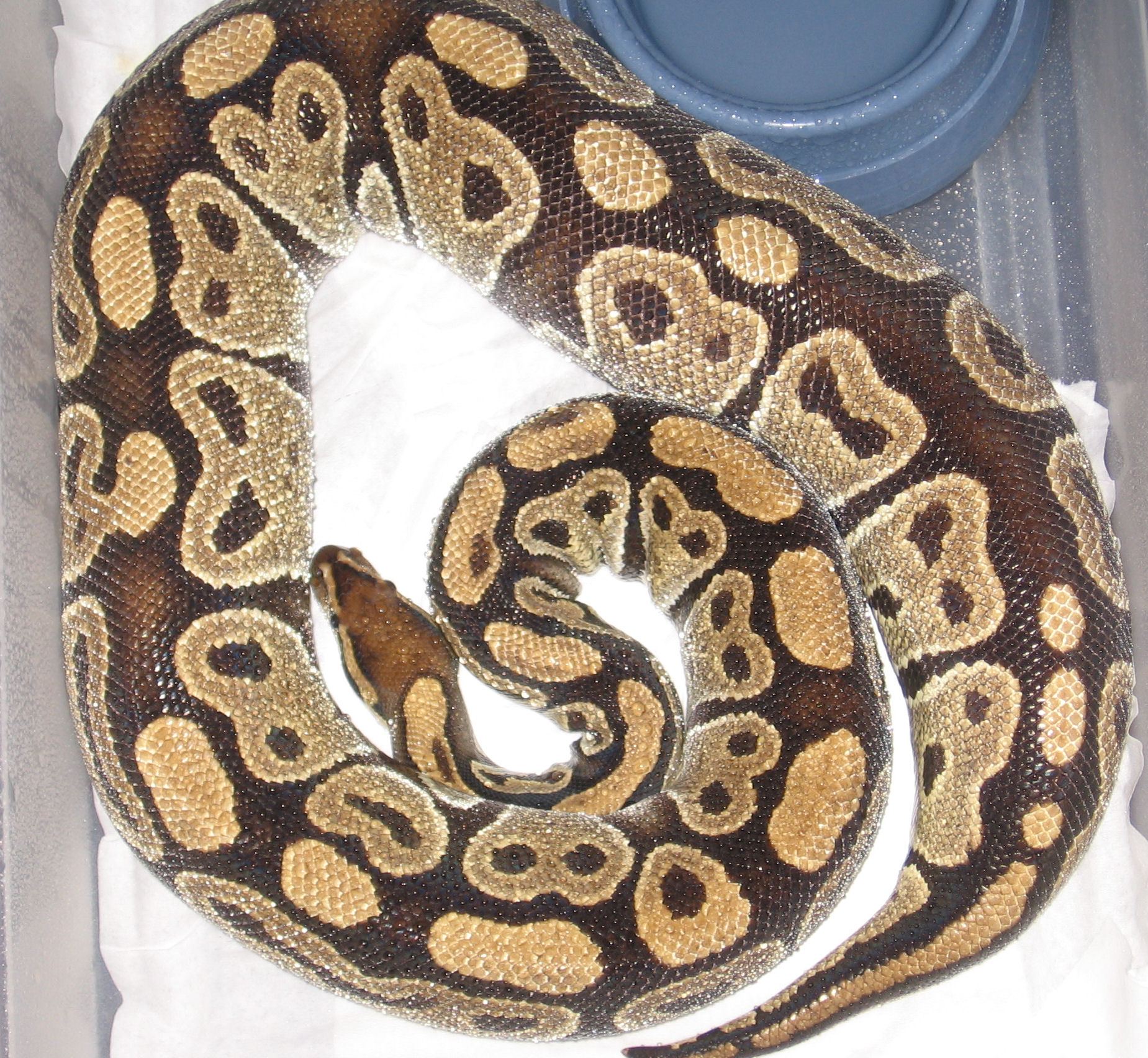 A gravid female ball python, within a week of laying her clutch.